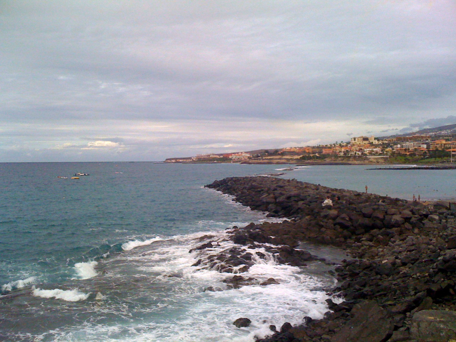 Costa Adeje, Tenerife